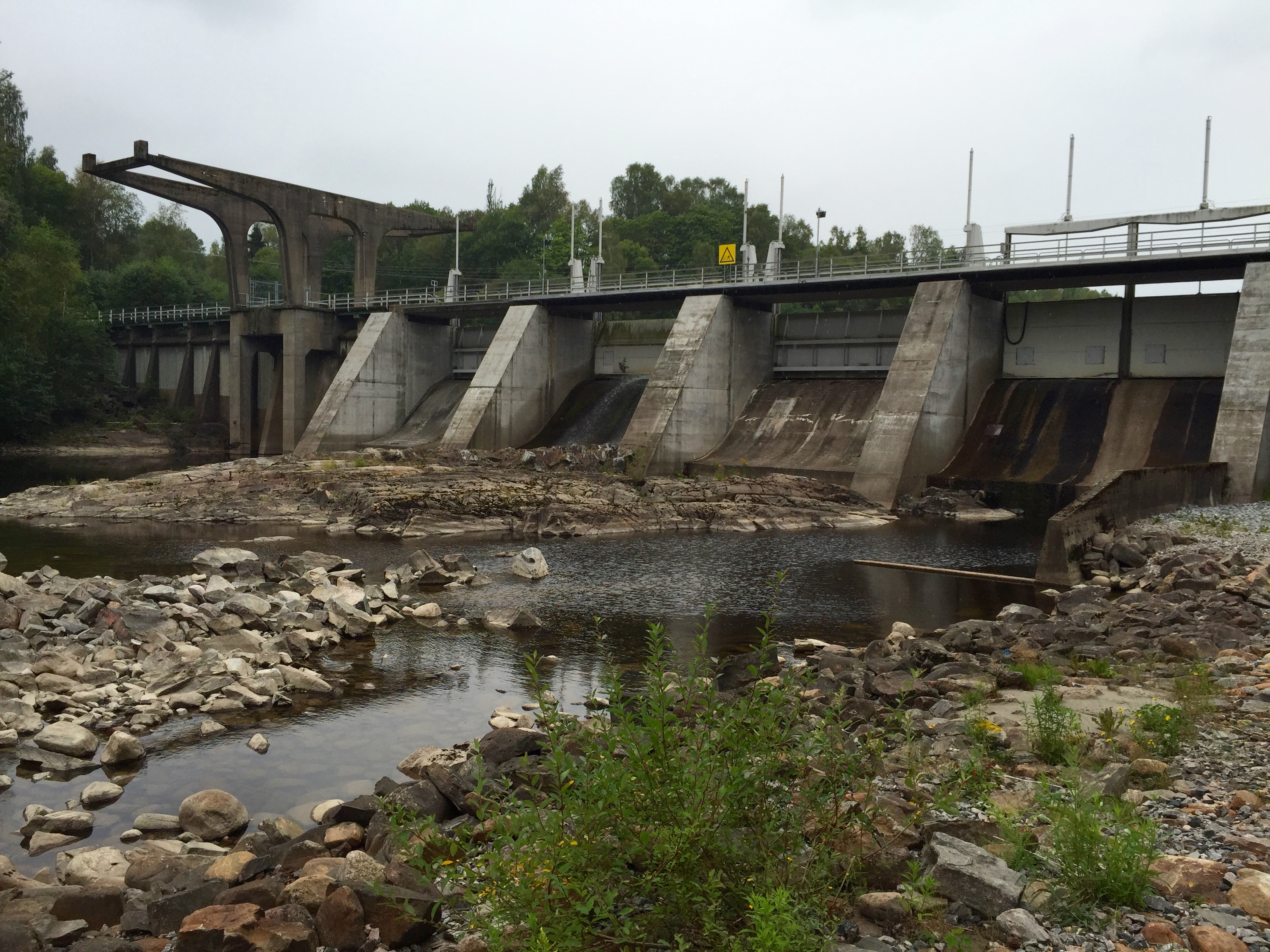 Edsvalla dam in river Norsälven.